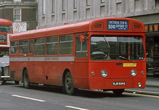 London Transport Red Arrow bus in Oxford Street, London. Original description:Red Arrow, near to Marylebone, Westminster, Great Britain. MBA504 (VLW 504G) passes Debenhams on route to Oxford Circus from Victoria on the 500 route. The Red Arrow's were limited stop, flat-fare, routes designed to get passengers from the stations to their work, or the shops in central London quickly. This is Oxford Street early on a Saturday morning in the 1970's, look how quiet it is and compare with today. MBA504 is an AEC Merlin and this type were the mainstay of the Red Arrow routes in the 1970's In other areas the type was not very successful and most had a very short working life with London Transport, entering service in 1969 and retired to store, for onward sale, at Radlett by 1975. MBA504 entered service in June 1969 as MBS504 working on the H1 in Harrow. Converted to MBA status in January 1976, the vehicle was withdrawn in March 1981. The full story of the AEC Merlins can be found at Link on the Ian's Bus Stop website.